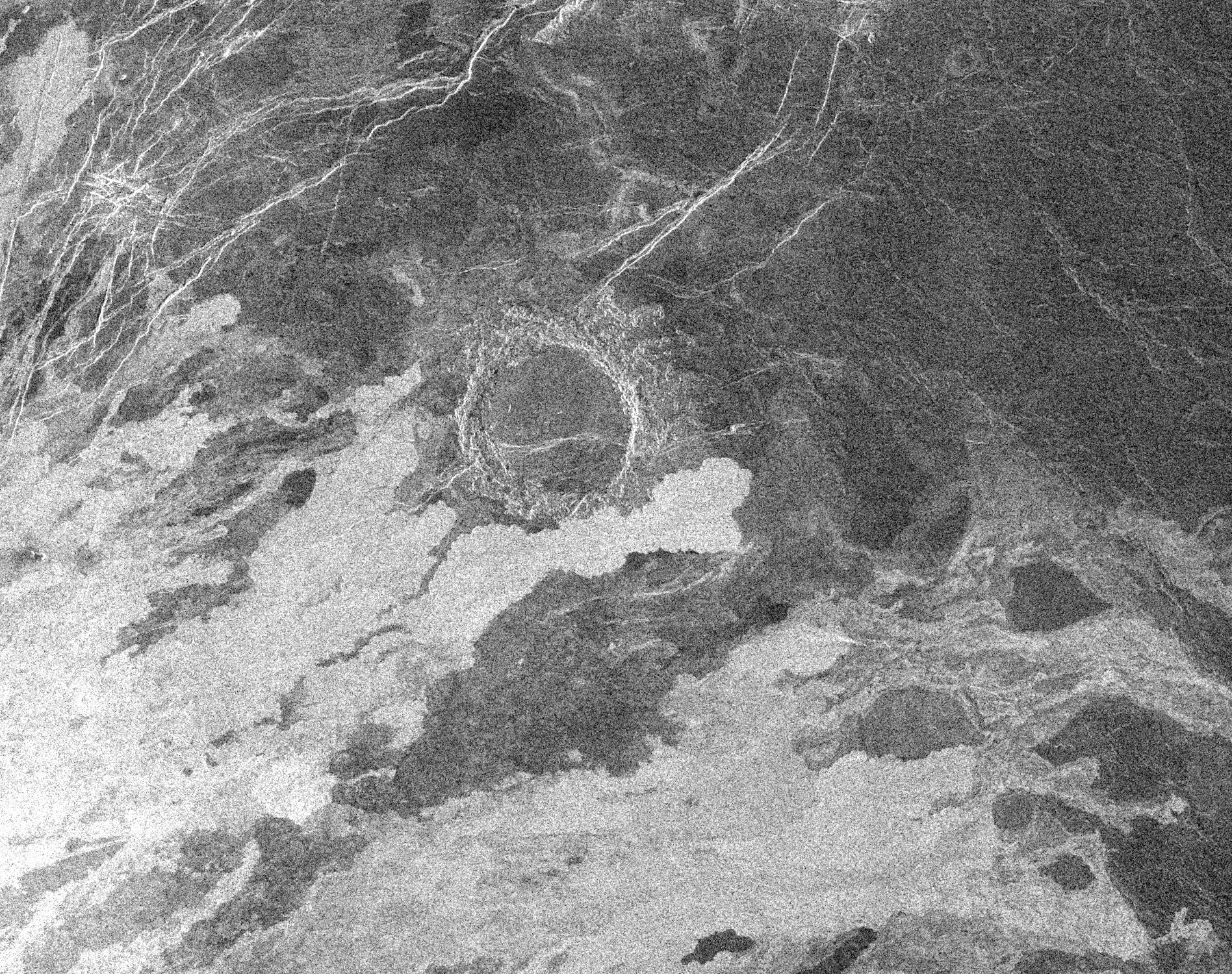 East Part of Sapas Mons with Flooded Crater Zamudio Original Caption Released with Image: This Magellan image centered near 9.6 degrees north latitude, 189.5 degrees east longitude of an area 140 kilometers (87 miles) by 110 kilometers (68 miles) covers part of the eastern flank of the volcano Sapas Mons on the western edge of Atla Regio. The bright lobate features along the southern and the western part of the image, oriented in northeast to southwest directions, are lava flows that are rough at the 12.6 centimeter wavelength of the radar. These flows range in width from 5 kilometers to 25 kilometers (3 to 16 miles) with lengths of 50 kilometers to 100 kilometers (31 to 62 miles), extending off the area shown here. Additional radar-dark (smooth) flows are also present. The radar-bright linear structures in the northwest part of the image are interpreted to be faults and fractures possibly associated with the emplacement of magma in the subsurface. Located near the center of the image is a 20 kilometer (12 mile) diameter impact crater. This crater is superimposed on a northeast/southwest trending fracture while the southern part of the crater's ejecta blanket is covered by a 6 kilometer (4 mile) wide radar-bright lava flow. These relations indicate that the crater post dates an episode of fracturing and is older than the lava flows covering its southern edge. This is one of only a few places on Venus in which an impact crater is seen to be covered by volcanic deposits.